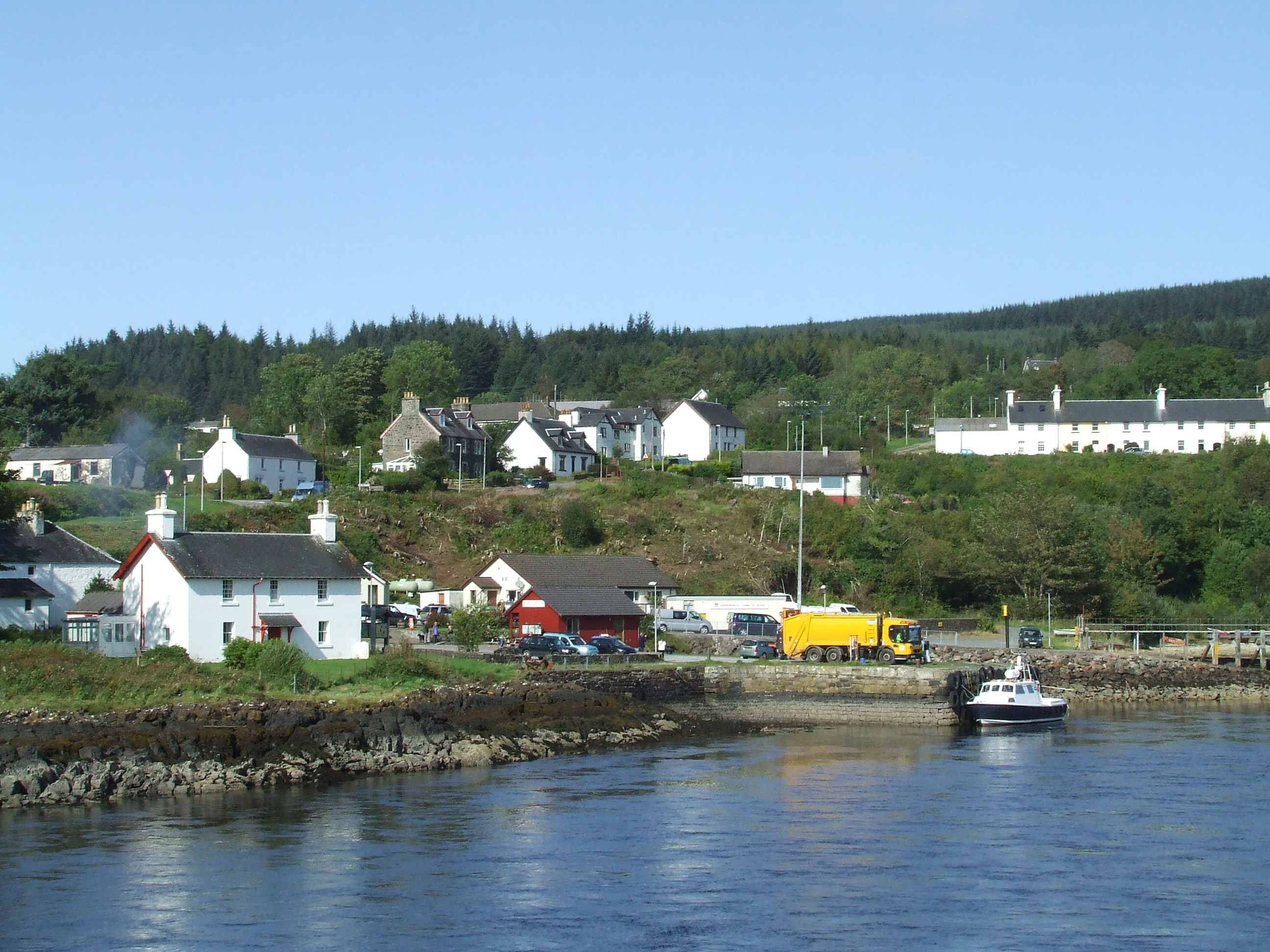 Lochaline from the Fishnish ferry